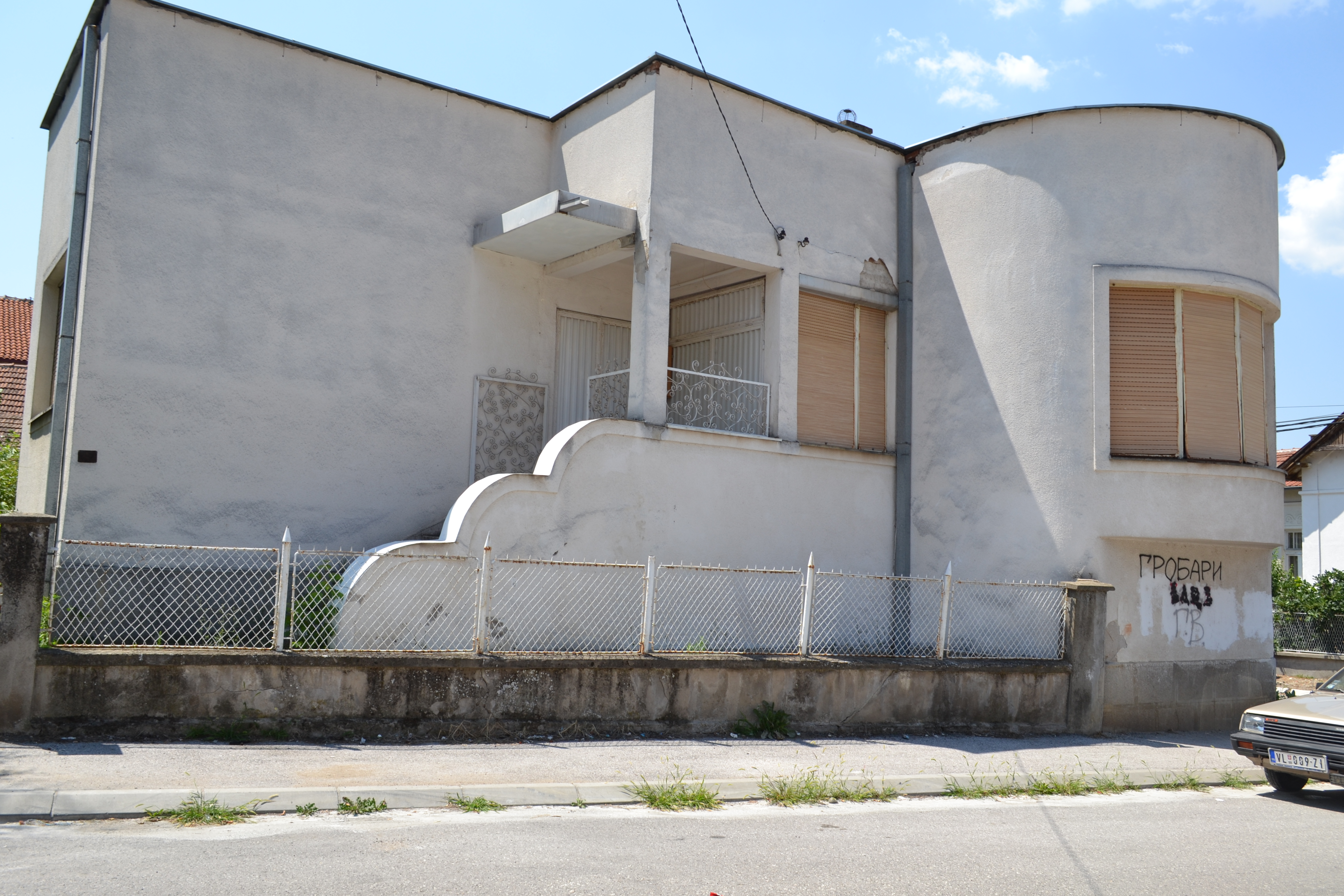 Кућа свештеника Чедомира Поповића